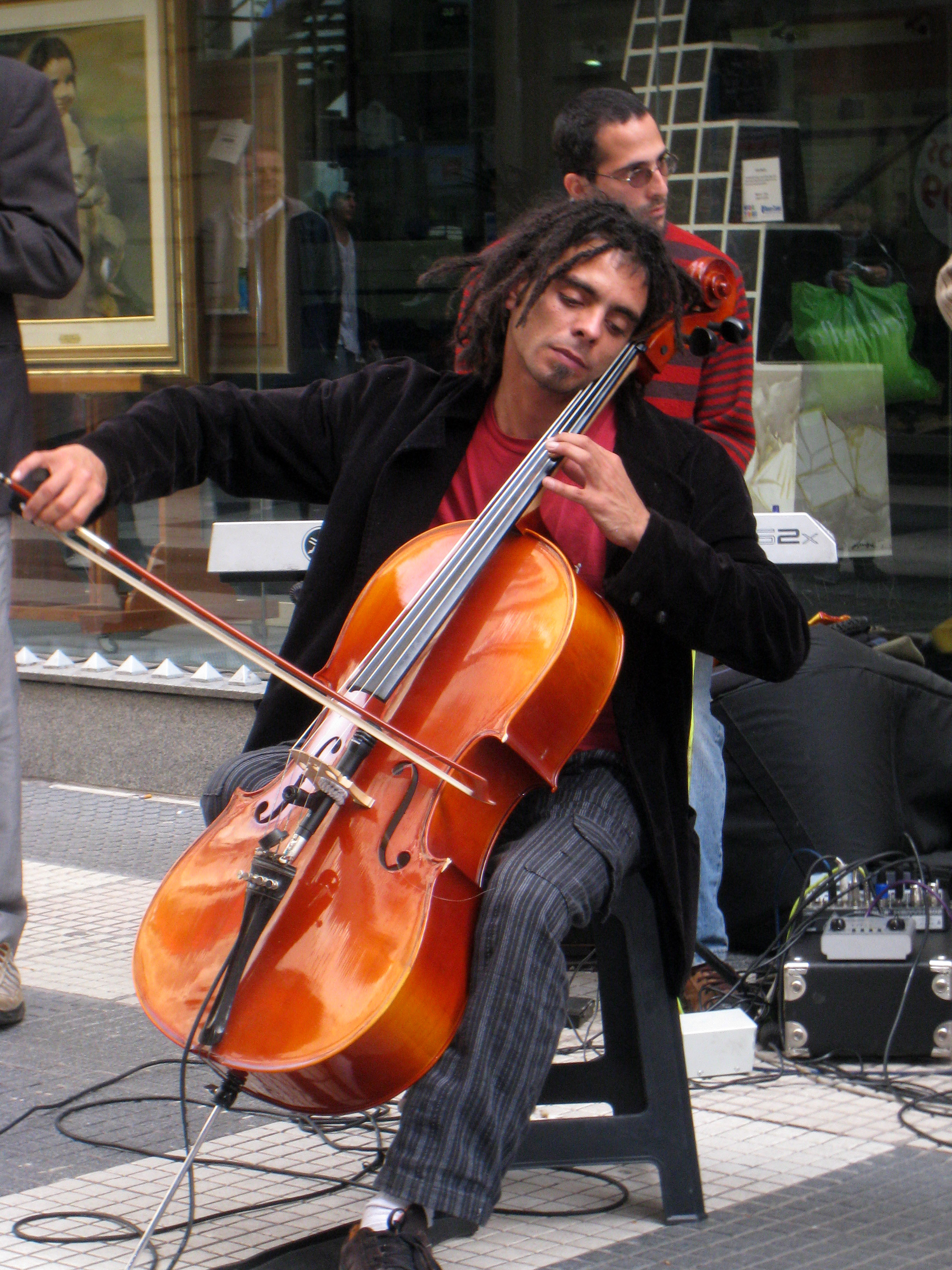 A cellist who is part of a group of street performers playing tango music in Buenos Aires, Argentina.